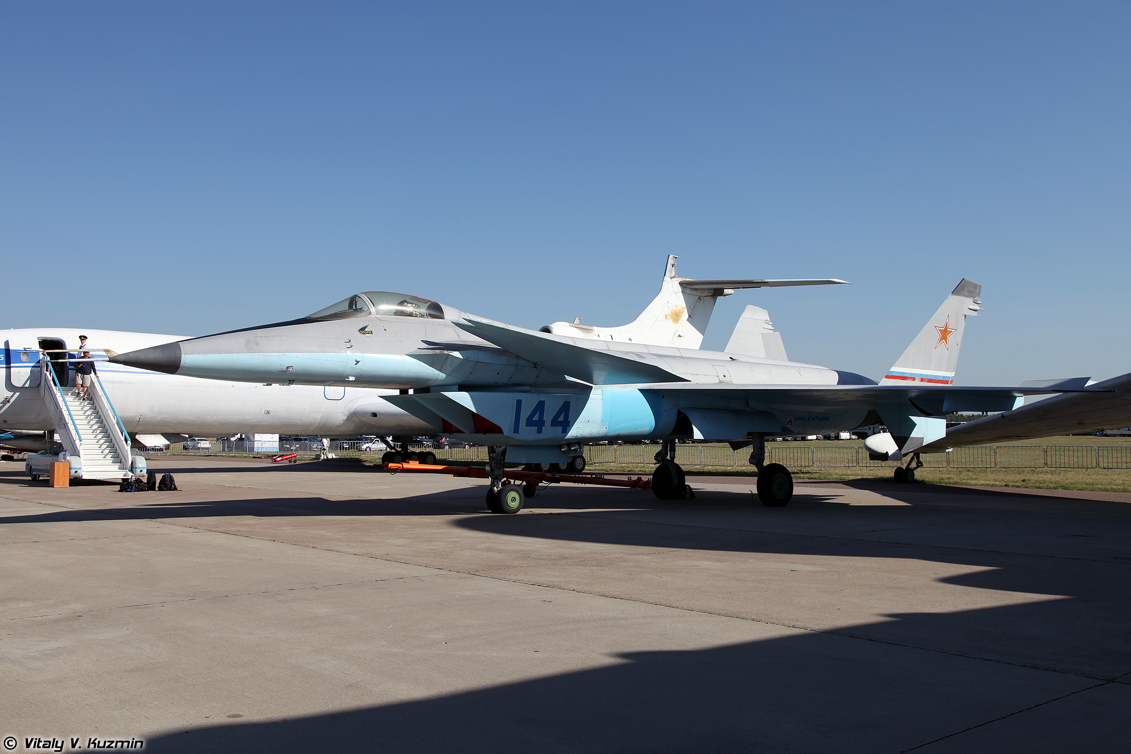 MAKS Airshow 2015 МиГ 1.44 МФИ (MiG 1.44 MFI)